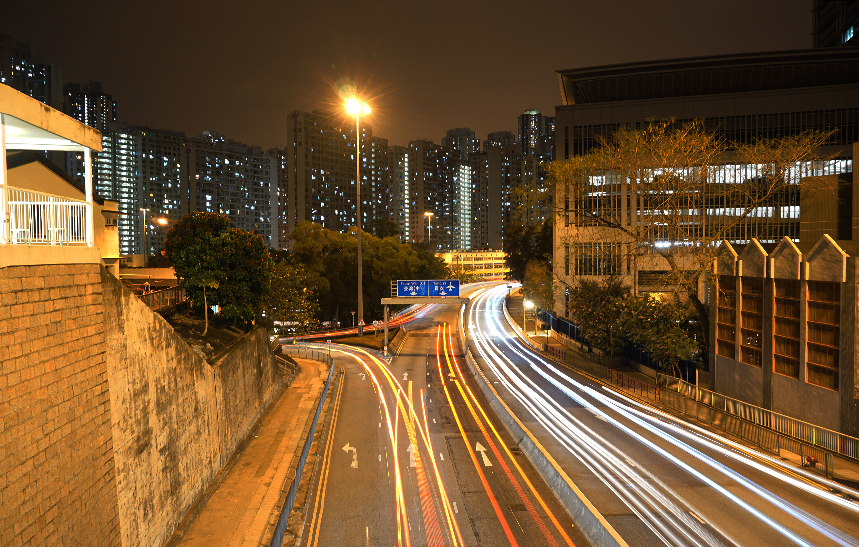 Texaco Road North in Tsuen Wan, Hong Kong.